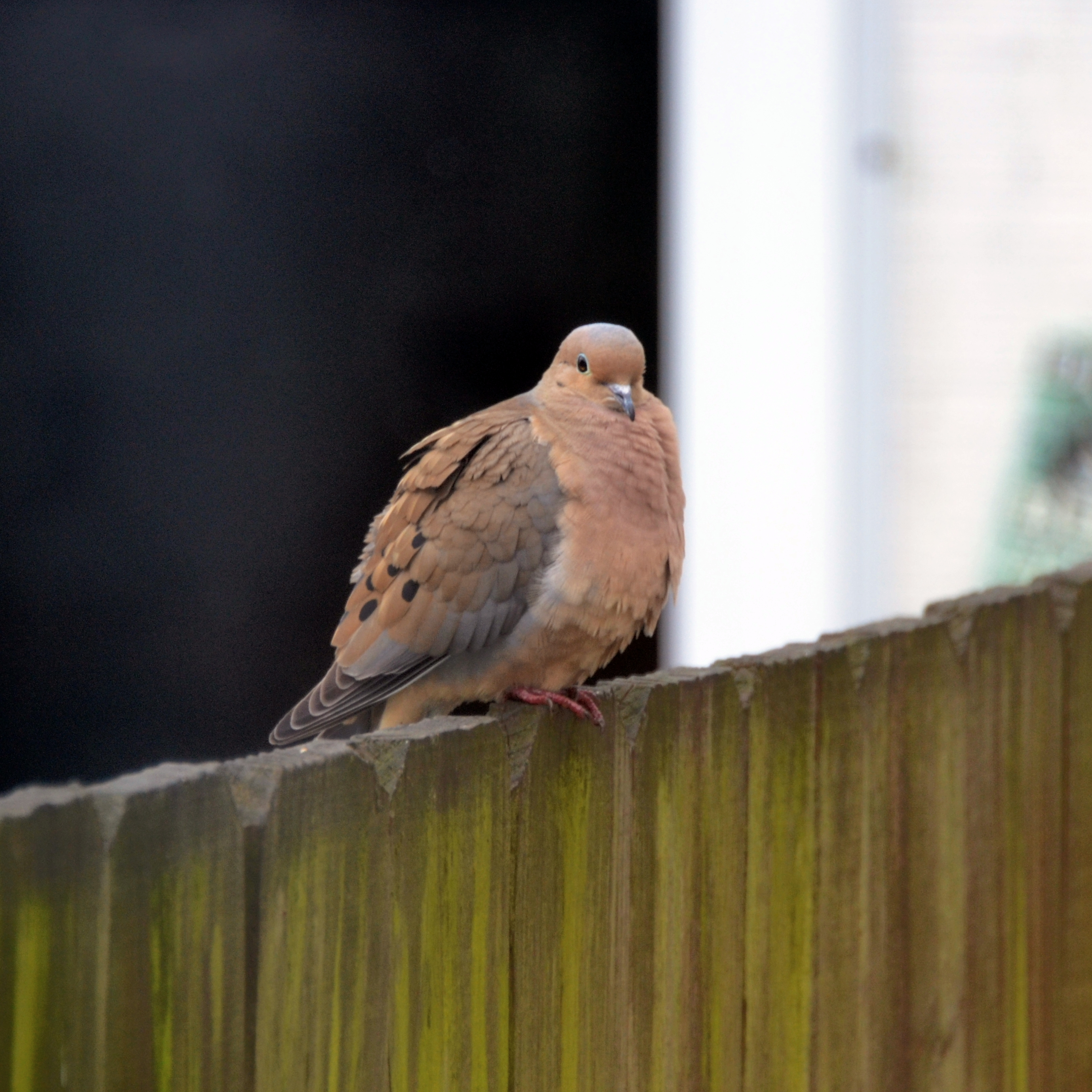 It was a cold day, this mourning dove had his feather's all puffed out to maintain body heat.